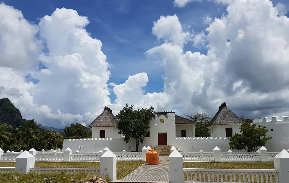 Sub district office